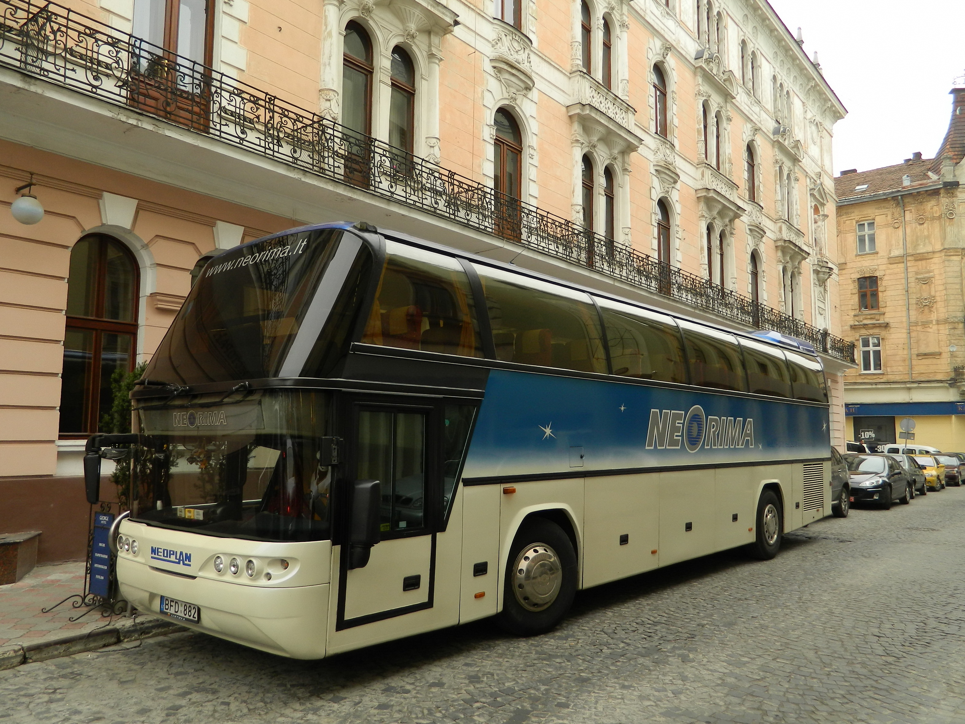 Neoplan bus from Lithuania, Neorima operator